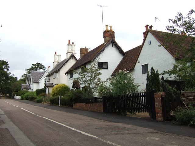 Church Road, Tingrith. A row of very attractive houses leading up to the church in Tingrith.